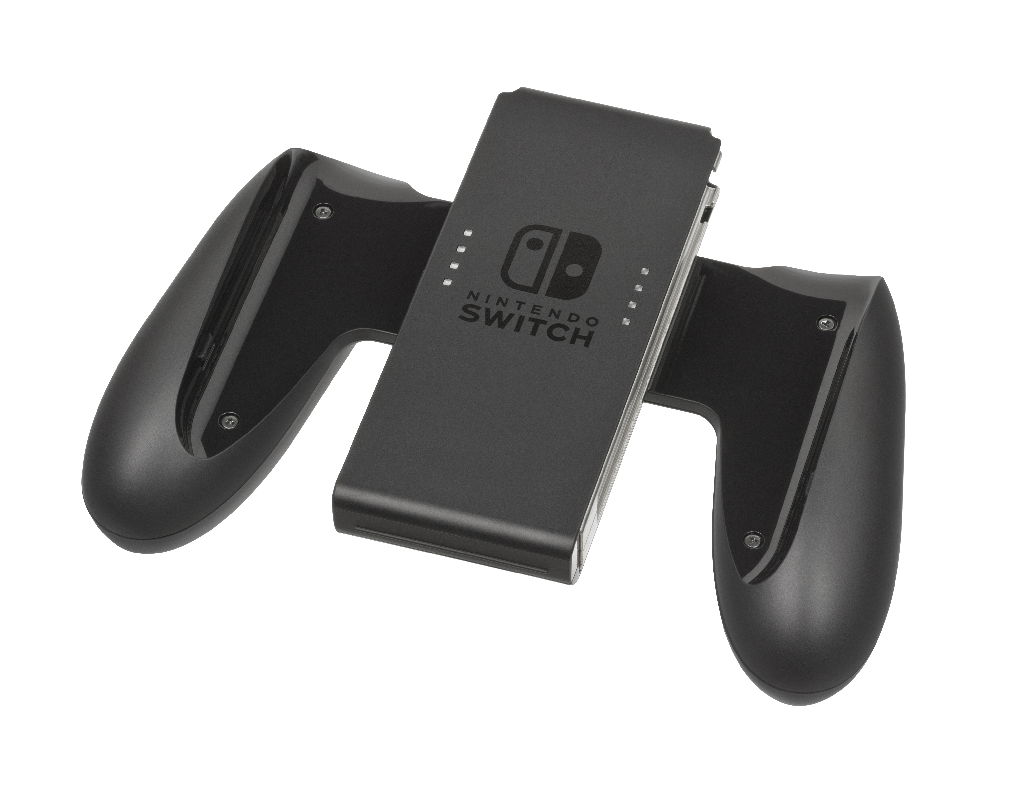 The grip for the Joy-Cons for the Nintendo Switch, a hybrid portable/home console released by Nintendo in 2017. This is included with the console.